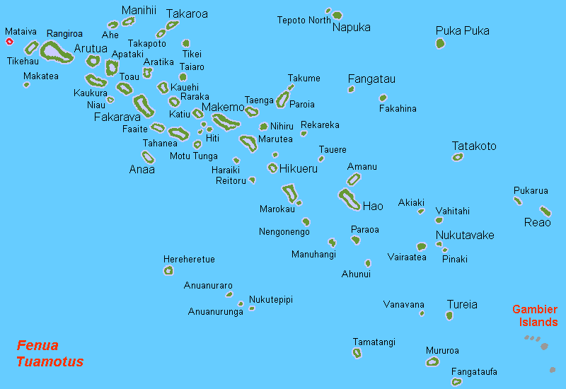 Map showing Mataiva in the Tuomotus, French Polynesia